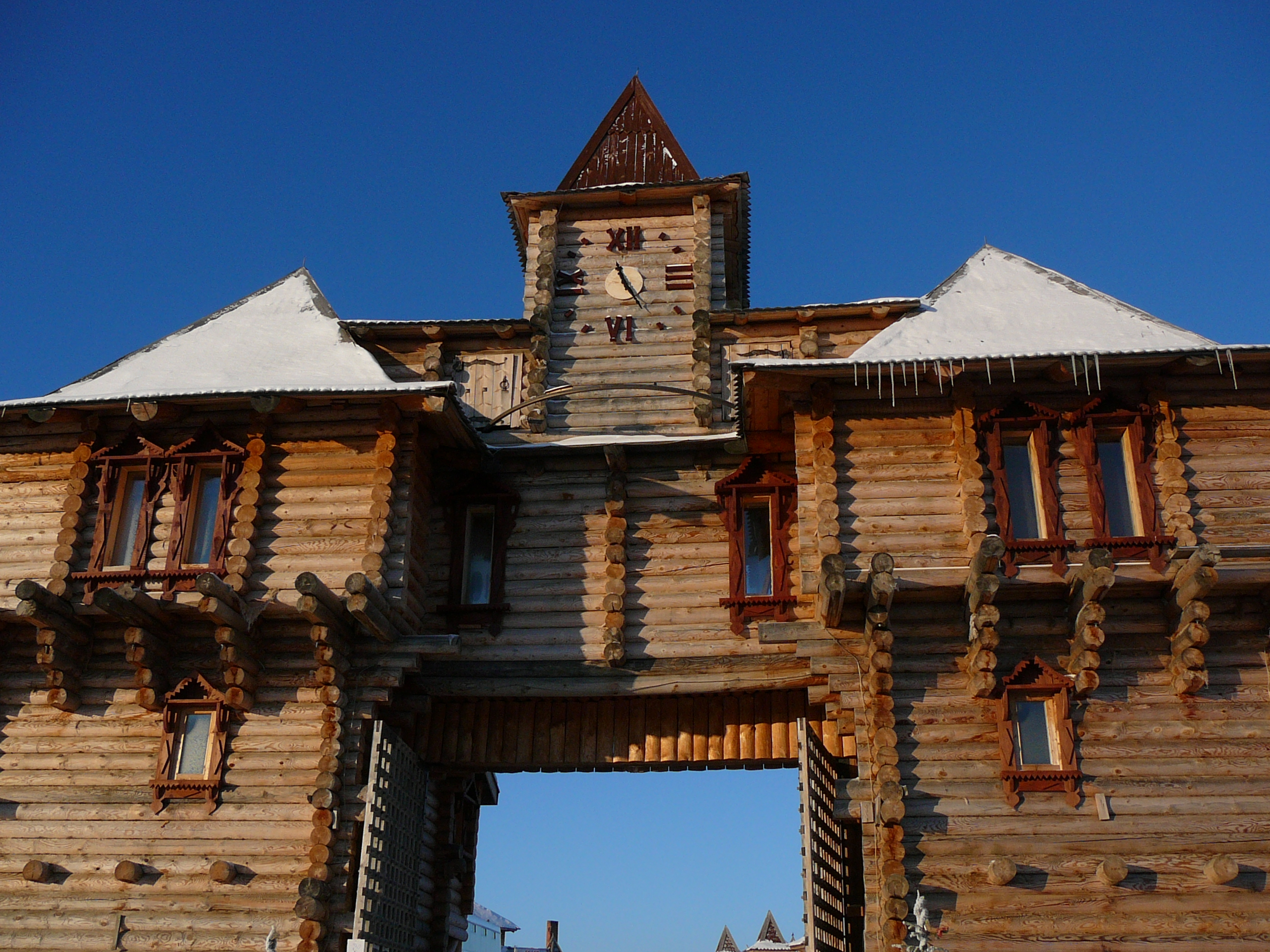 Entrance to the Abalak Tourist Complex